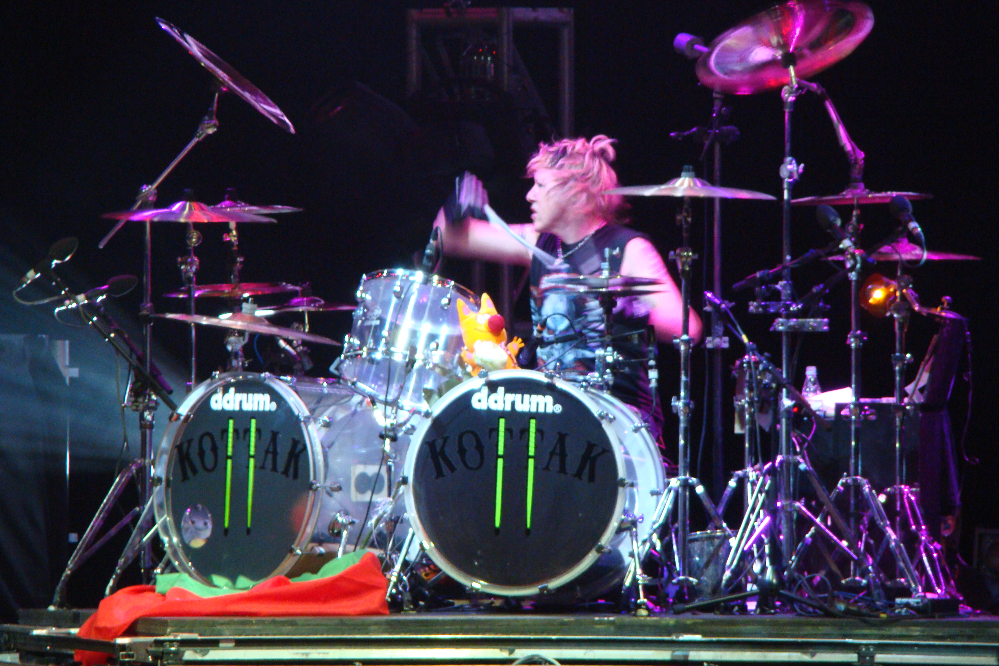 James Kottak of the band "The Scorpions" during a concert in Minsk, Belarus.